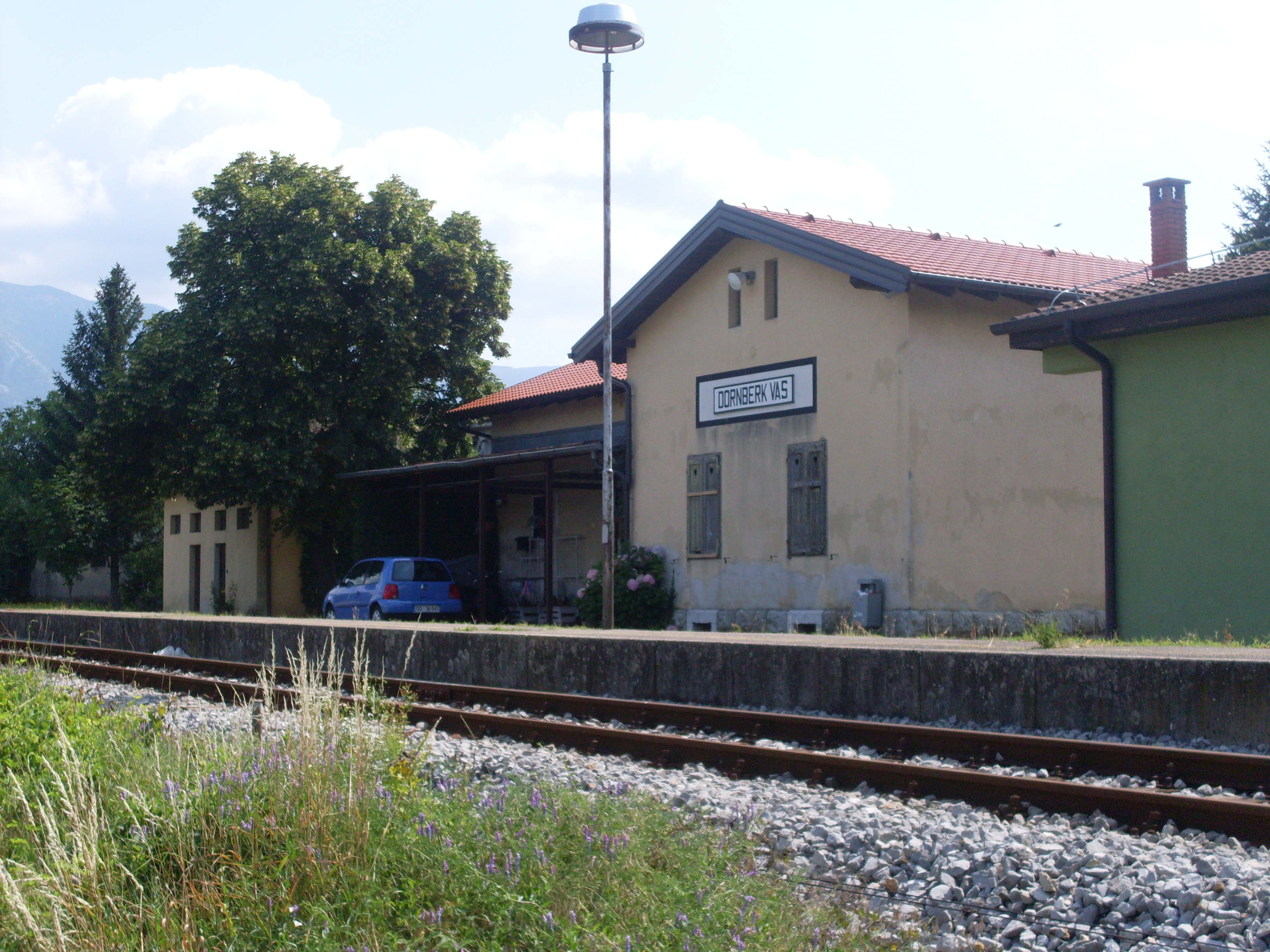 Railway halt Dornberk vas (on (Gorizia-) Prvačina - Ajdovščina railway), located in Dornberk. Sould not be confused with the nearby railway halt Dornberk on the Nova Gorica - Sežana railway (historical Bohinj railway)